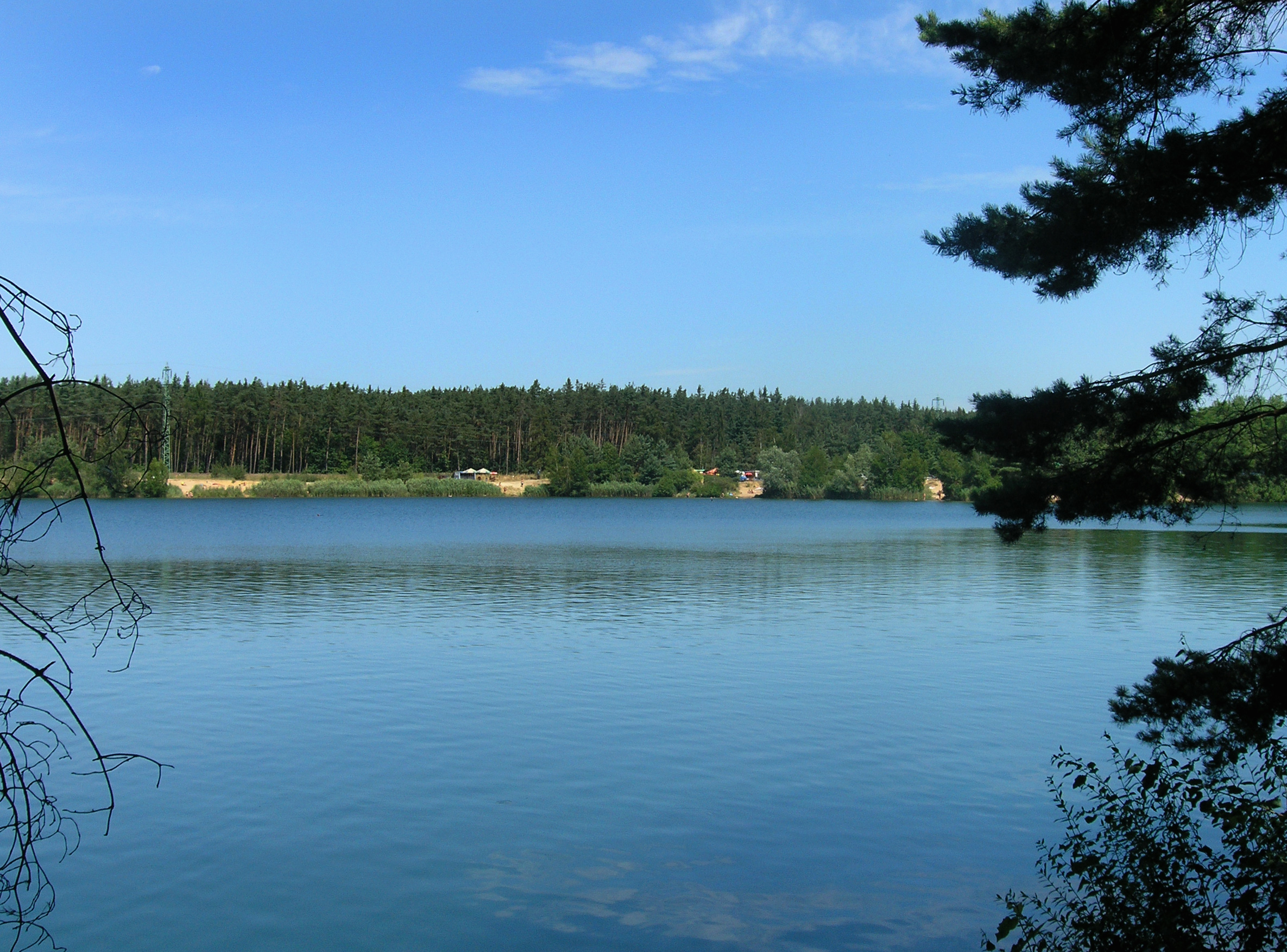 Lido in Mělice, part of Přelouč, Czech Republic